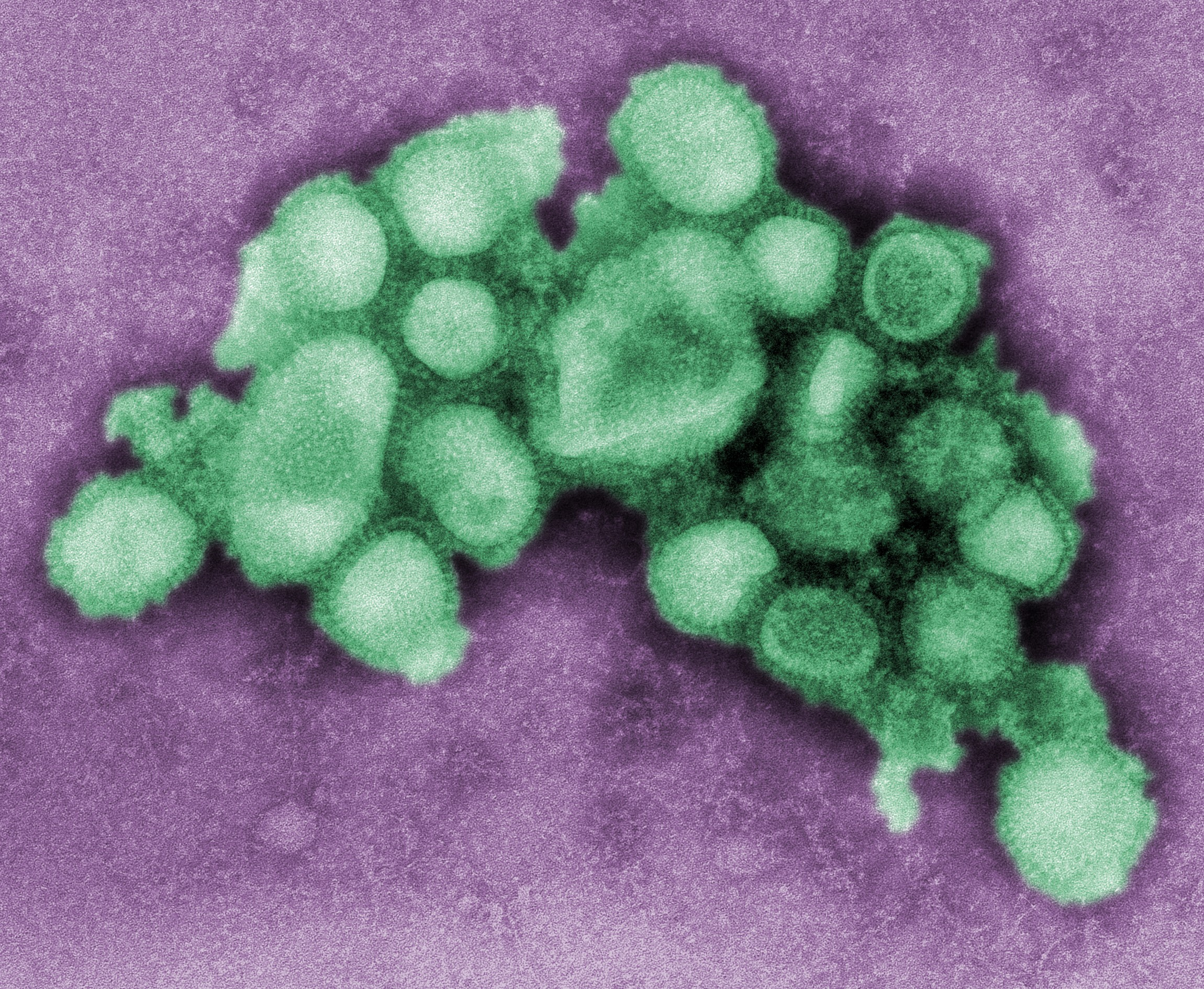 This colorized negative stained transmission electron micrograph (TEM) depicted some of the ultrastructural morphology of the A/CA/4/09 swine flu virus. See PHIL 11213 for a black and white version of this image.